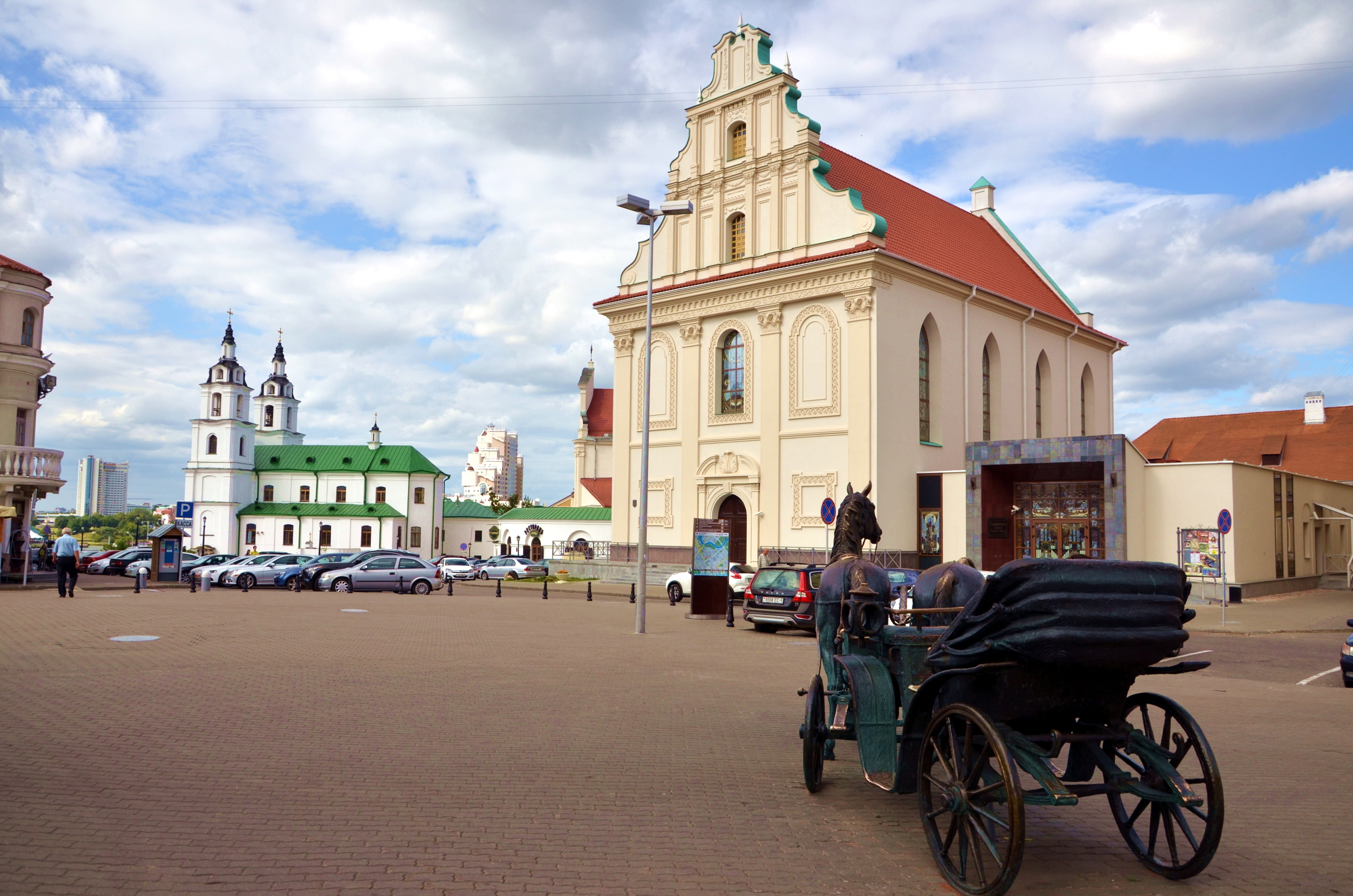 View of Cathedral Square (Svabody Square), with the main Belorussian Orthodox Church of the Holy Spirit and Bernardine monastery